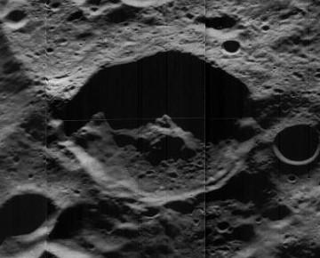 Oblique view of Kidinnu, on the far side of the moon, facing west.